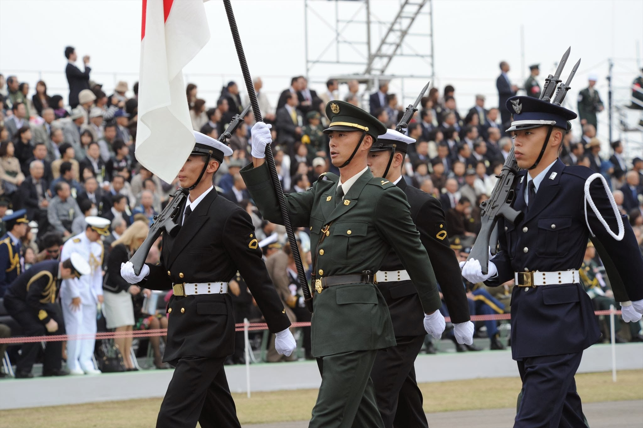 Title 11_02_014_R.JPG Album 自衛隊記念日 観閲式(Parade of Self-Defense Force) 平成22年度自衛隊記念日 観閲式(Parade of Self-Defense Force)